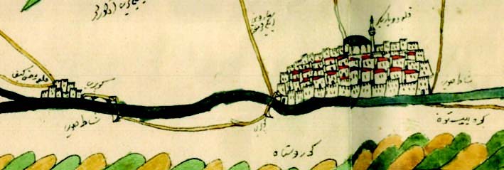 The cities of Hasankeyf (left) and Diyarbekir (right) on the Tigris river. South is at the top. Detail from a 17th-century map of the Tigris and Euphrates now owned by Shaikh Hassan bin Muhammed al-Thani of Qatar. The map may have been drawn by the Ottoman traveler Evliya Çelebi.